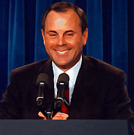 White House Photo, US Government.